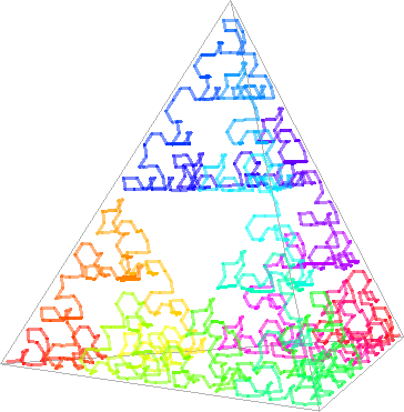 Fractal Sierpinski arrowhead curve extended to 3D, fifth iteration.